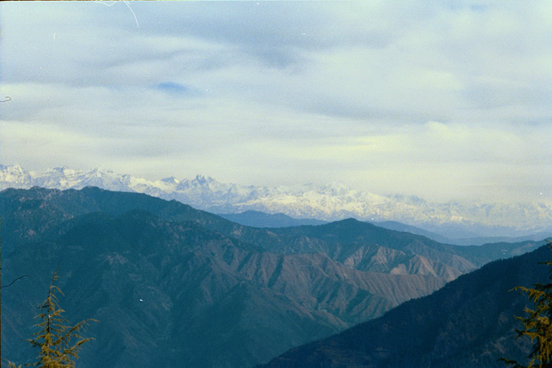 Photo taken from Mussoorie by me in January of 2002. I am the copyright holder.